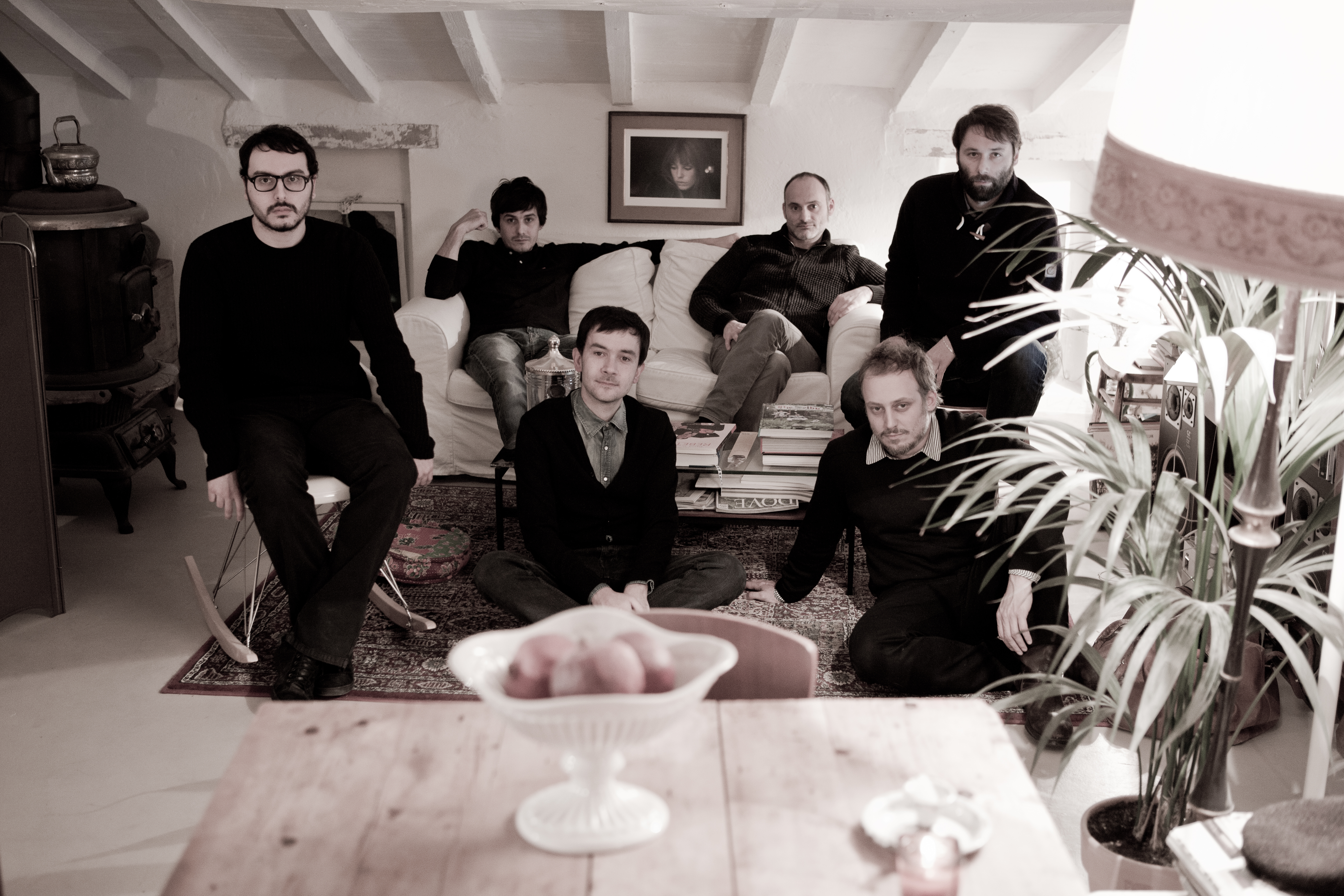 Giardini di miro', picture by matteo serri